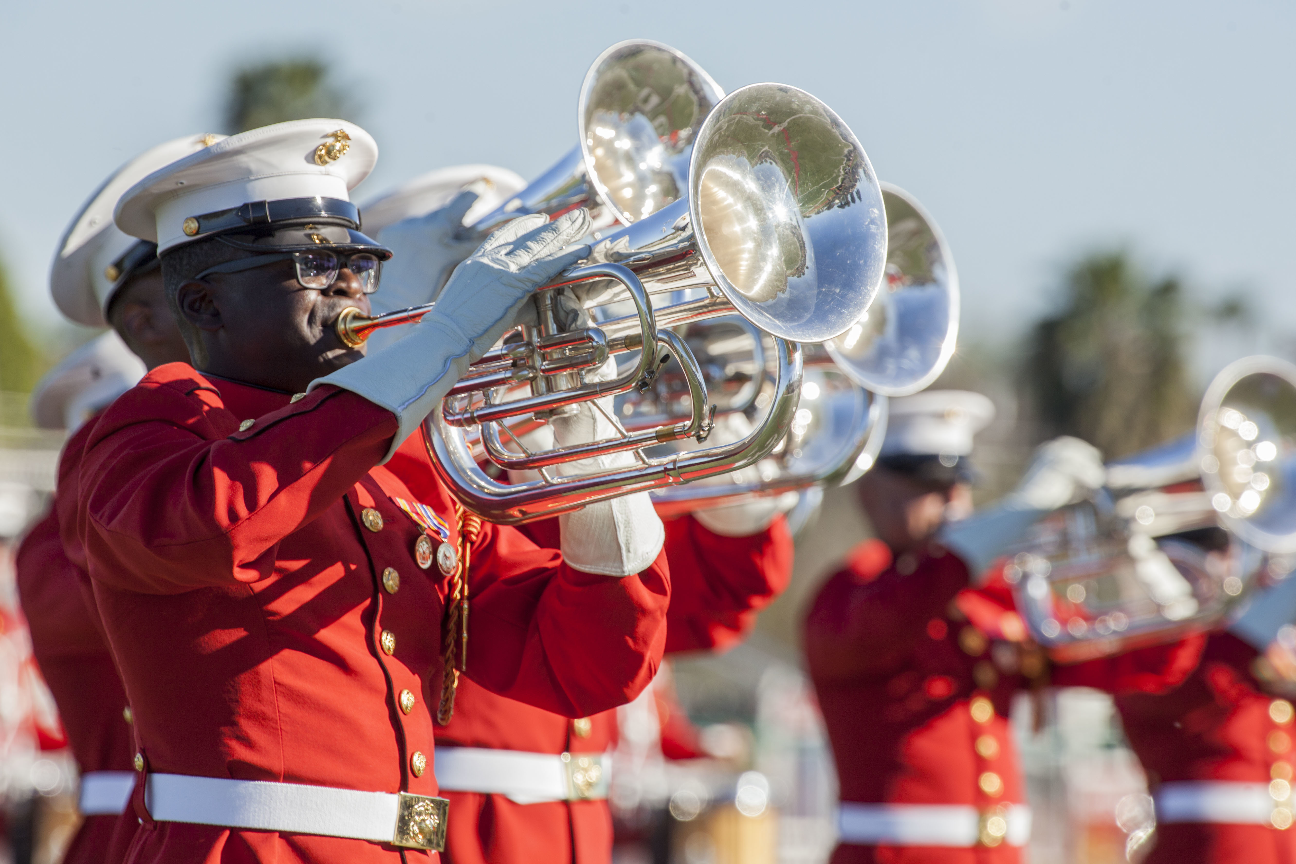 U.S. Marines with the United States Marine Drum & Bugle Corps, Battle Color Detachment, Marine Barracks Washington, D.C., perform during the Battle Color Ceremony at the 11 Area football field on Camp Pendleton, Calif., March 9, 2017. The ceremony featured “The Commandant’s Own," the United States Marine Drum & Bugle Corps, the Silent Drill Platoon, and the Official Color Guard of the Marine Corps. (U.S. Marine Corps photo by Lance Cpl. Betzabeth Y. Galvan) Unit: Marine Corps Installations West- Marine Corps Base Camp Pendleton Combat Camera DVIDS Tags: Marine; Camp Pendleton; Drill; U.S. Marine Corps; Silent Drill Platoon; Combat Camera; Battle Color Detachment; football field; The Commandant's Own; Drum & Bugle Corps; Battle Color Ceremony; MCIWEST-MCB; ZD670; CampPen75; 11 Area; Official Color Gaurd; Betzabeth Y. Galvan